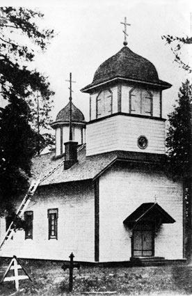 Ägläjärvi orthodox church before Winterwar.